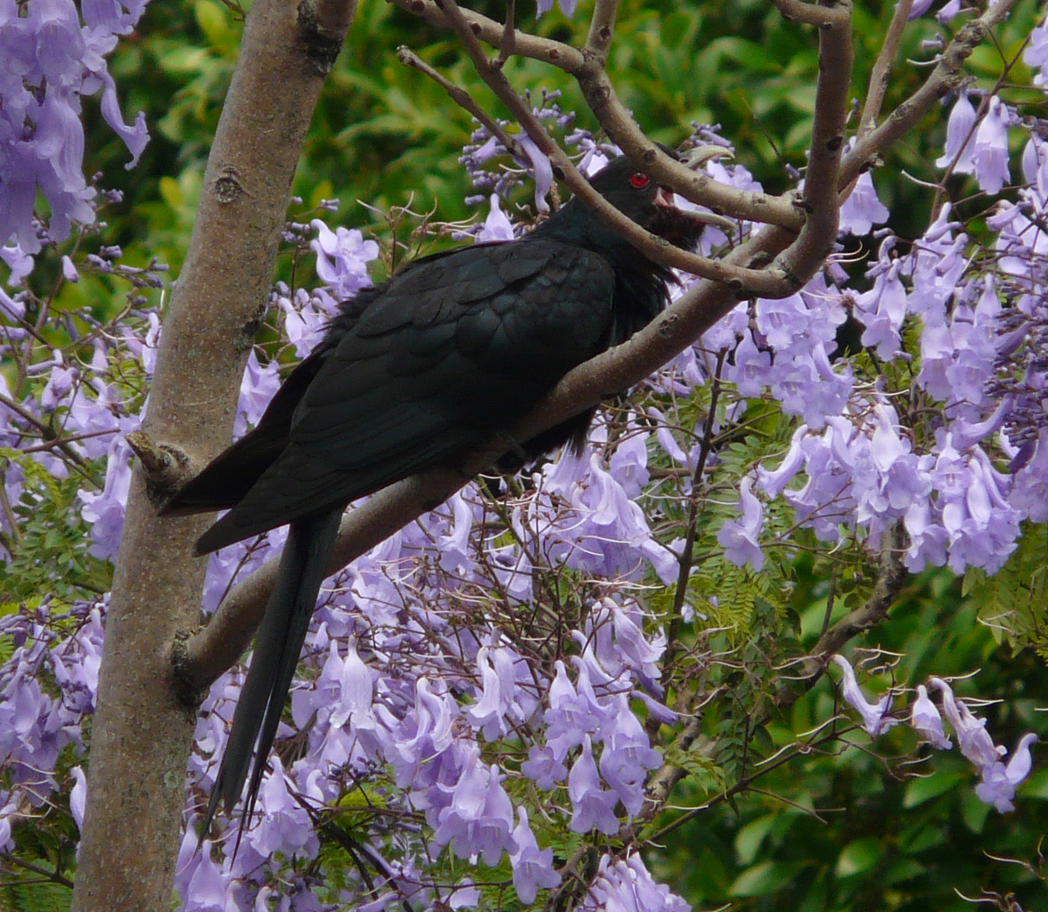 Photograph of an Australian koel taken in eastern Sydney